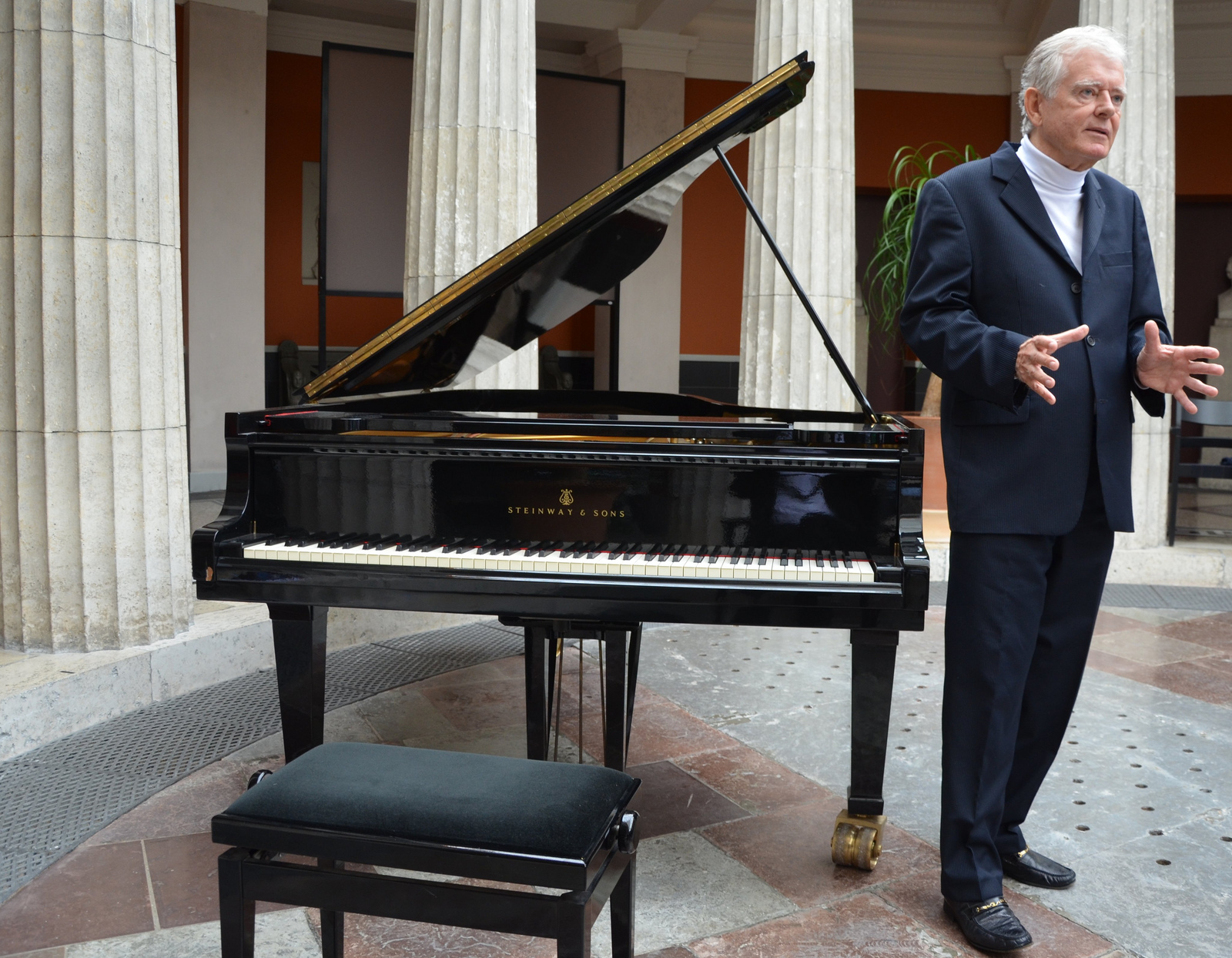 Mogens Dalsgaard på Carlberg Akademi 2012